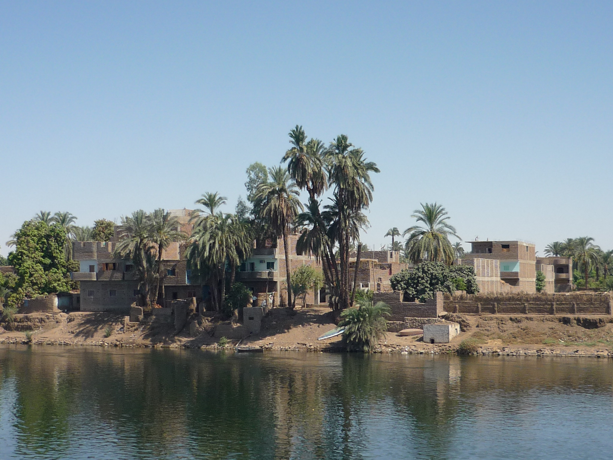 Traditionnal houses near Nile, Armant, Egypt